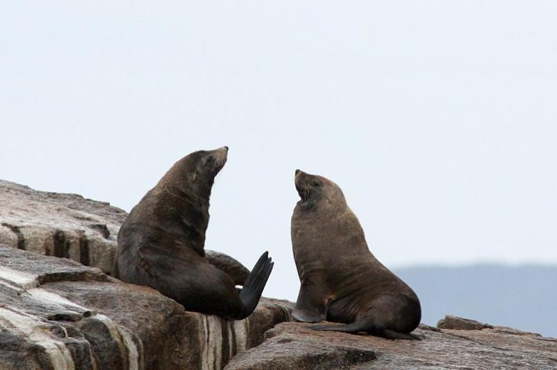 Hippolytes, Off Eaglehawk Neck, Tasmania.